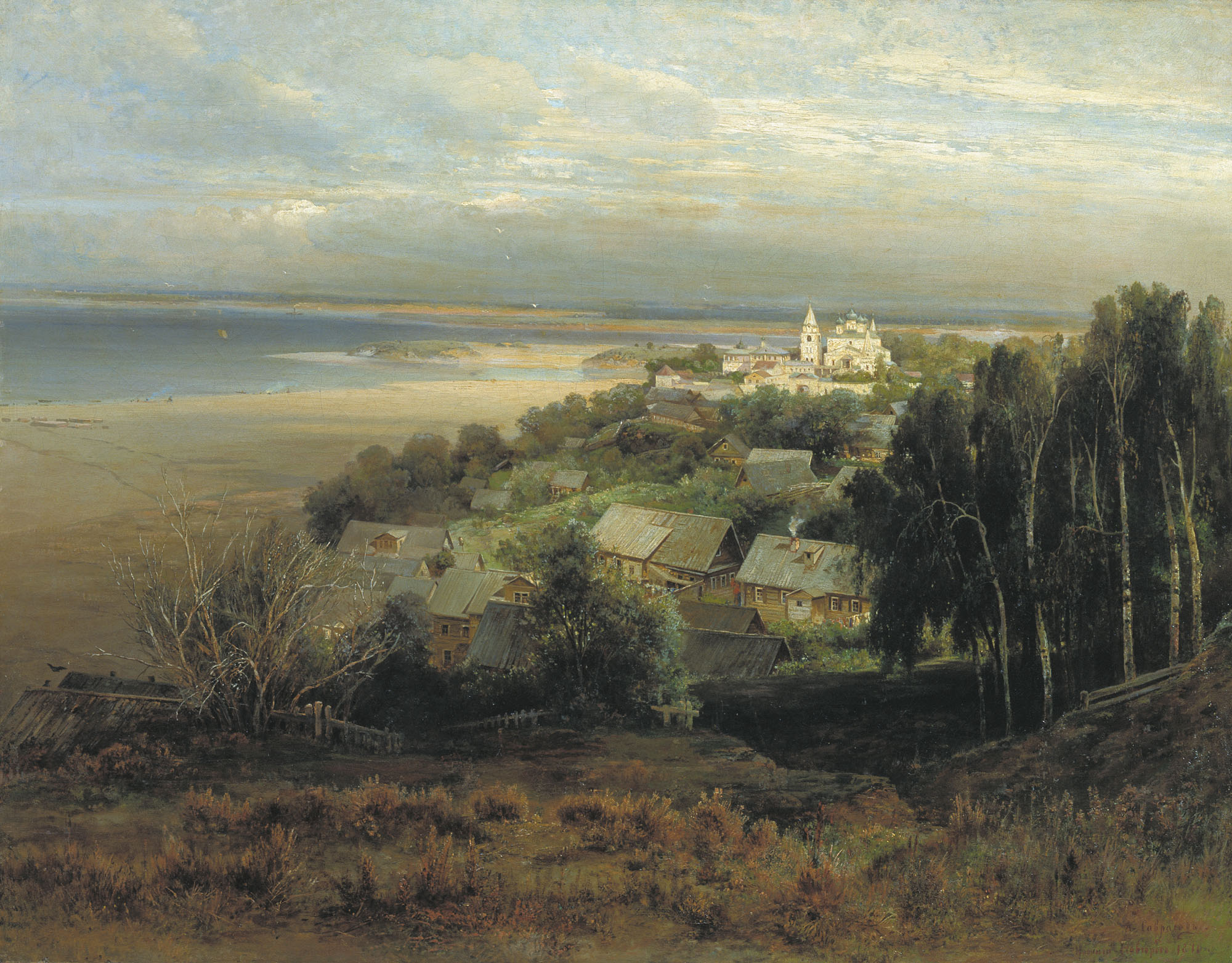 The Monastery of Caves near Nizhni Novgorod.